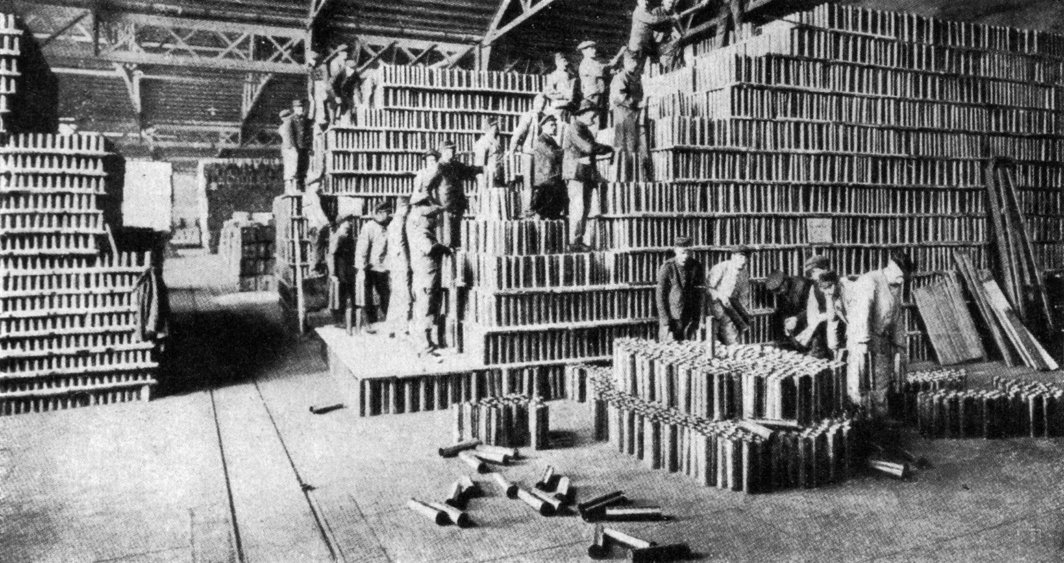 PILING UP SHELL CASES FOR 75-MILLIMETER GUNS. "The French 'soixante-quinze' gun is a marvel of fitted mechanism. In the process of loading and firing it gives the impression of some sentient organism rather than a machine of turned steel. This impression is heightened by the short, dry sound of the explosion when the shell is fired—a sound that awes and electrifies."